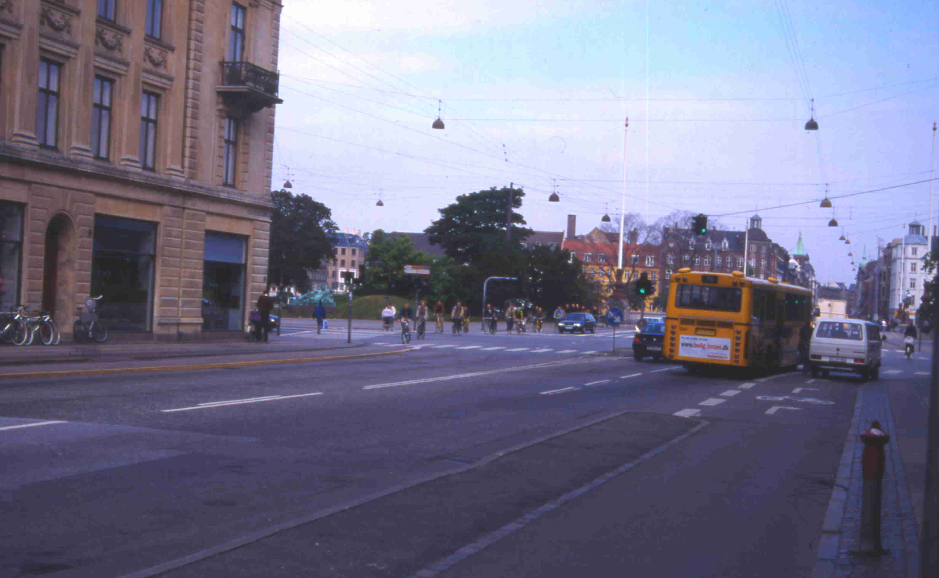 Standard design of Copenhagen cross roads about 2000 with one common lane (the term shared lane was not yet invented) as cycle track and for turning right cars